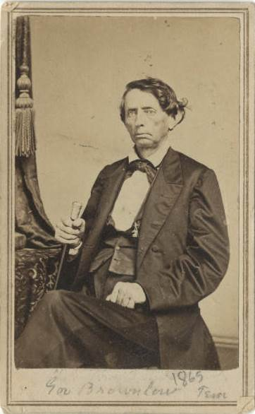 Tennessee governor and U.S. senator William G. "Parson" Brownlow (1805–1877)